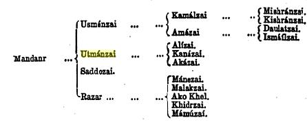 Utmanzai tribe